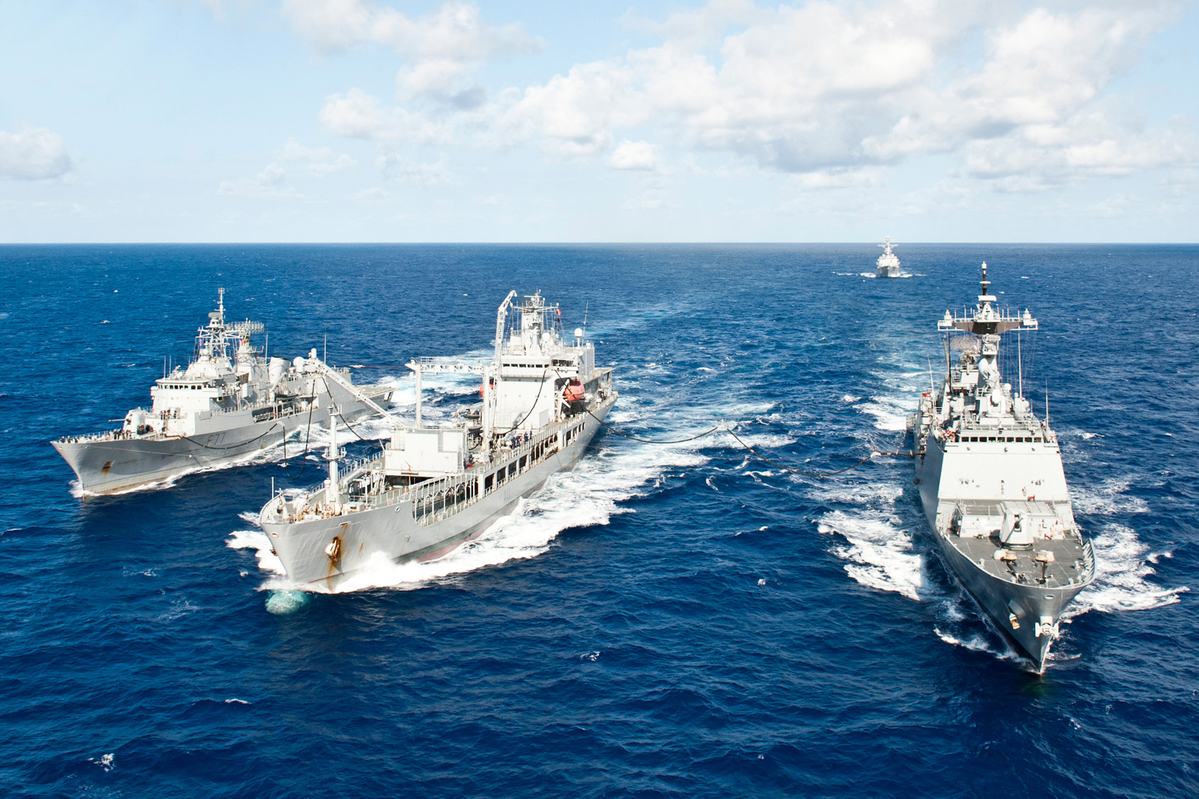 PACIFIC OCEAN (July 20, 2012) The Royal New Zealand Navy fleet oiler HMNZS Endeavour (A11), center, refuels the Royal New Zealand Navy frigate HMNZS Te Kaha (F77), left, and the Republic of Korean destroyer ROKS Choi Young (DDH 981). Twenty-two nations, more than 40 ships and submarines, more than 200 aircraft and 25,000 personnel are participating in the biennial RIMPAC exercise from June 29 to Aug. 3, in and around the Hawaiian Islands. The world's largest international maritime exercise, RIMPAC provides a unique training opportunity that helps participants foster and sustain the cooperative relationships that are critical to ensuring the safety of sea lanes and security on the world's oceans. RIMPAC 2012 is the 23rd exercise in the series that began in 1971. (New Zealand Defence Force photo by LAC Amanda McErlich/Released) 120720-O-ZZ999-017 Join the conversation navylive.dodlive.mil